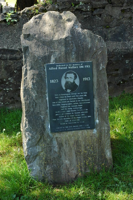 Memorial to Alfred Russel Wallace, Llanbadoc This memorial to Alfred Russel Wallace (1823-1913) stands just outside the wall of the churchyard of Llanbadoc where he was baptisted. Alfred Russel Wallace who was a self-taught scientist, world traveller, social reformer and originator of the theory of evolution independently of Darwin in 1858. He was born in nearby Kensington Cottage where he lived until the age of five. To see the plaque 1268343 for more information